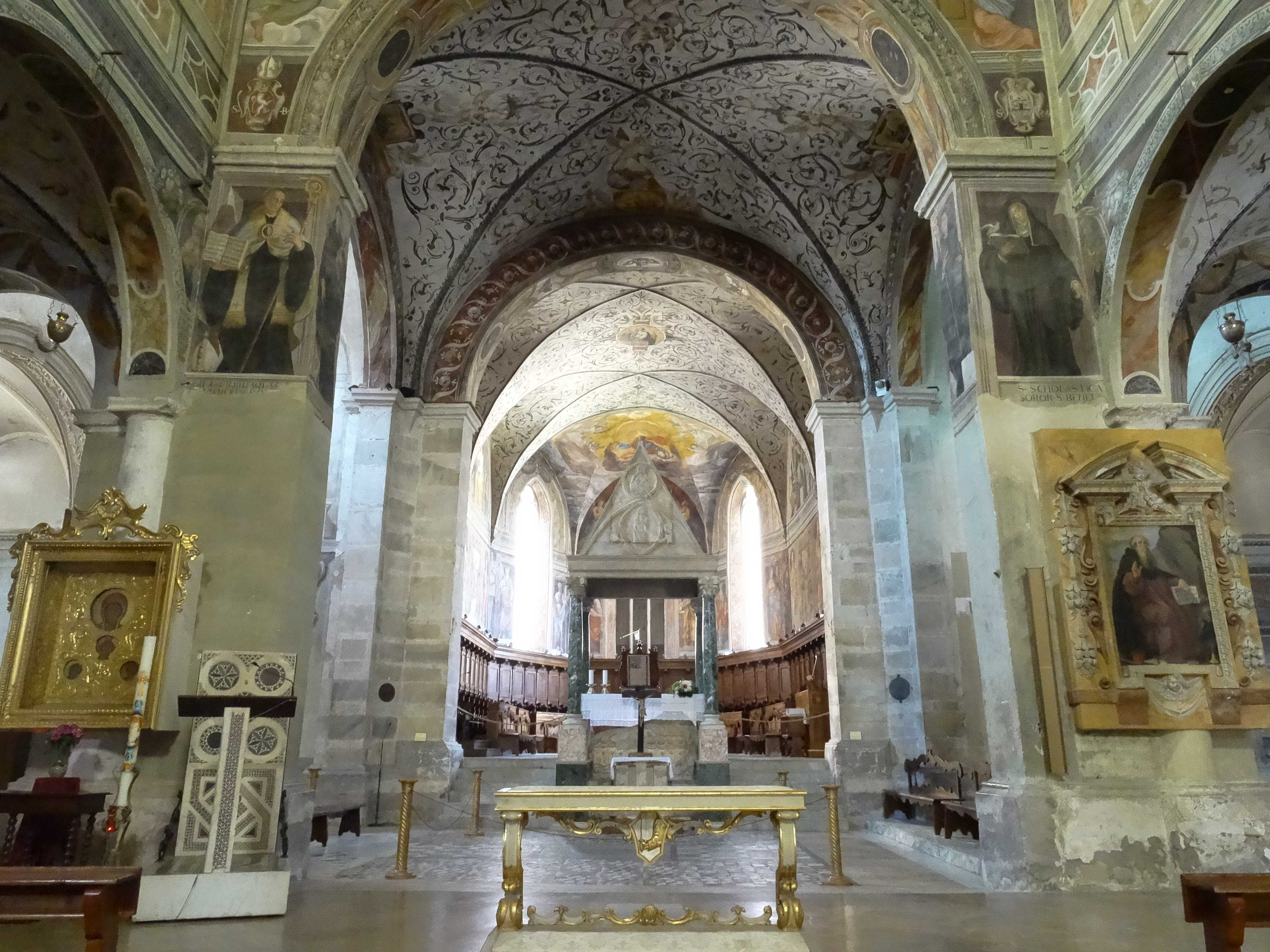 Abbazia di Farfa